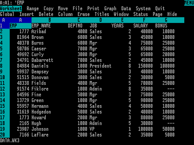 Lotus 1-2-3 Versão 2.2, screen